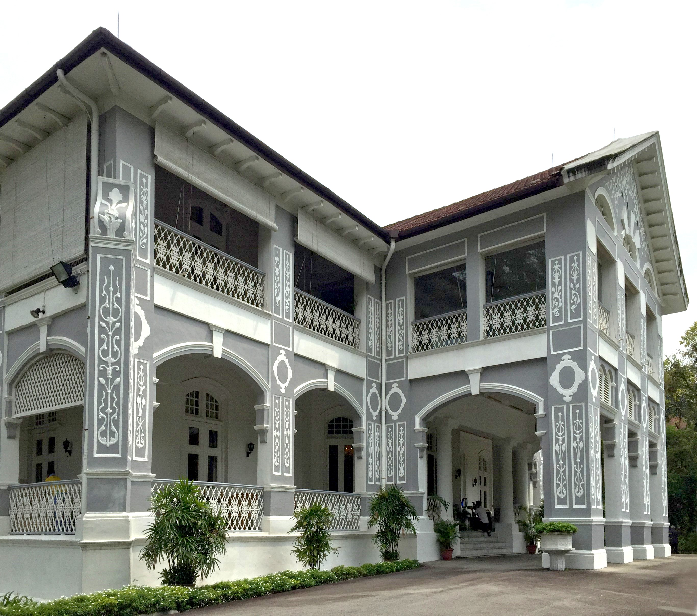 Eden Hall at 28 Nassim Road, Singapore, the official residence of the High Commissioner of the United Kingdom to Singapore.